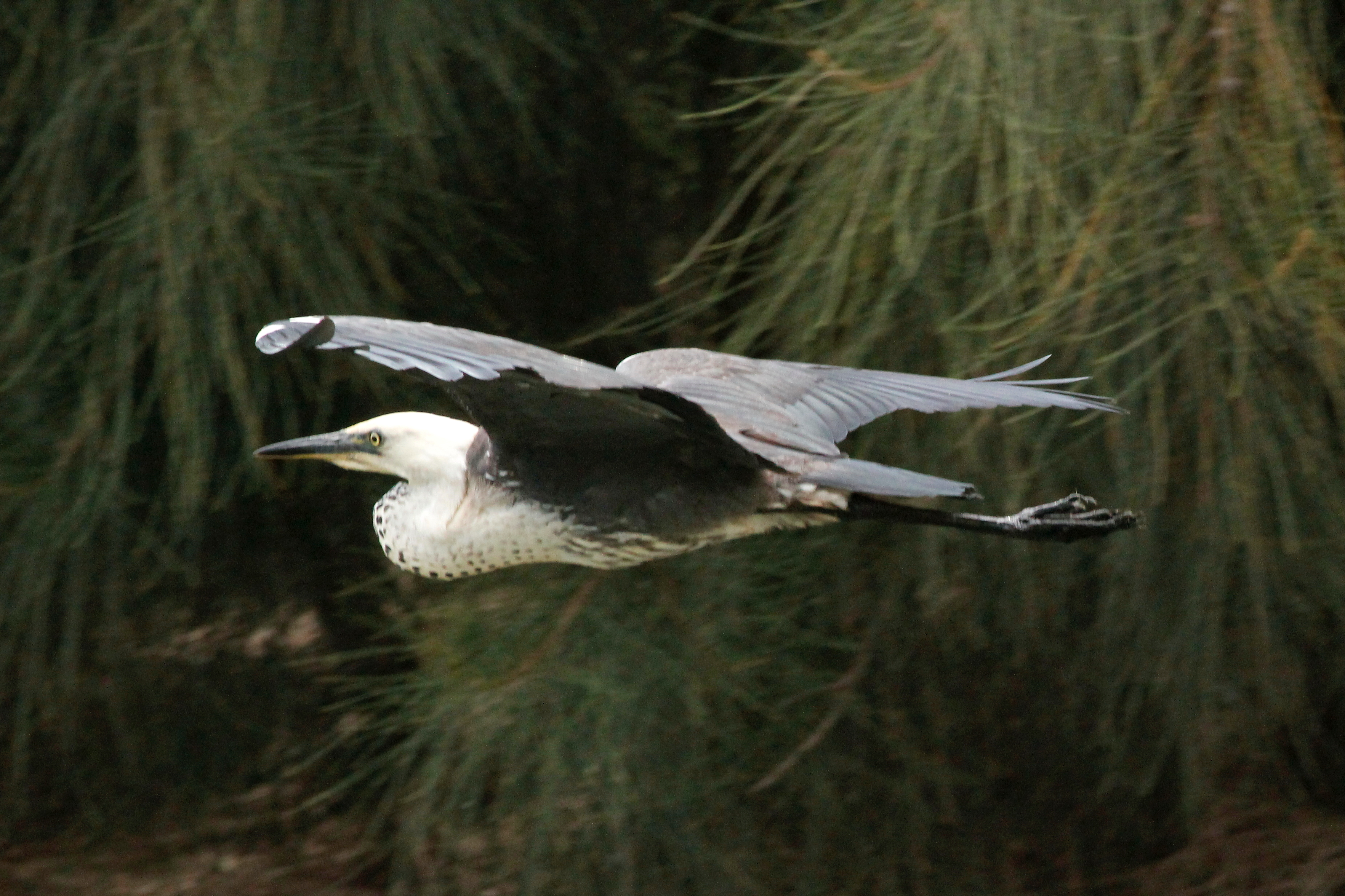 A White-necked Heron (also known as the Pacific Heron) flying in Edithvale Wetland, Melbourne, Australia.